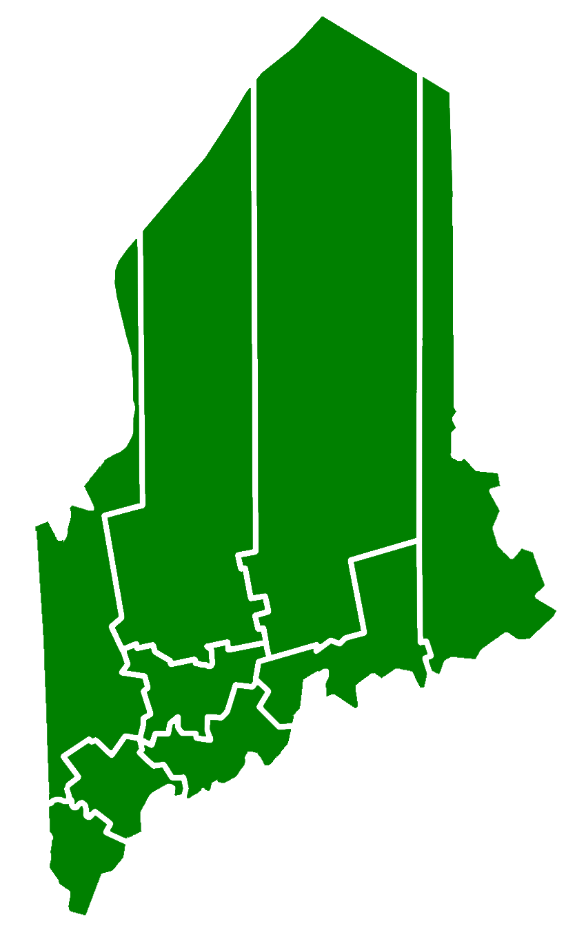 1820 Maine gubernatorial election map, county by county. Made in photoshop.